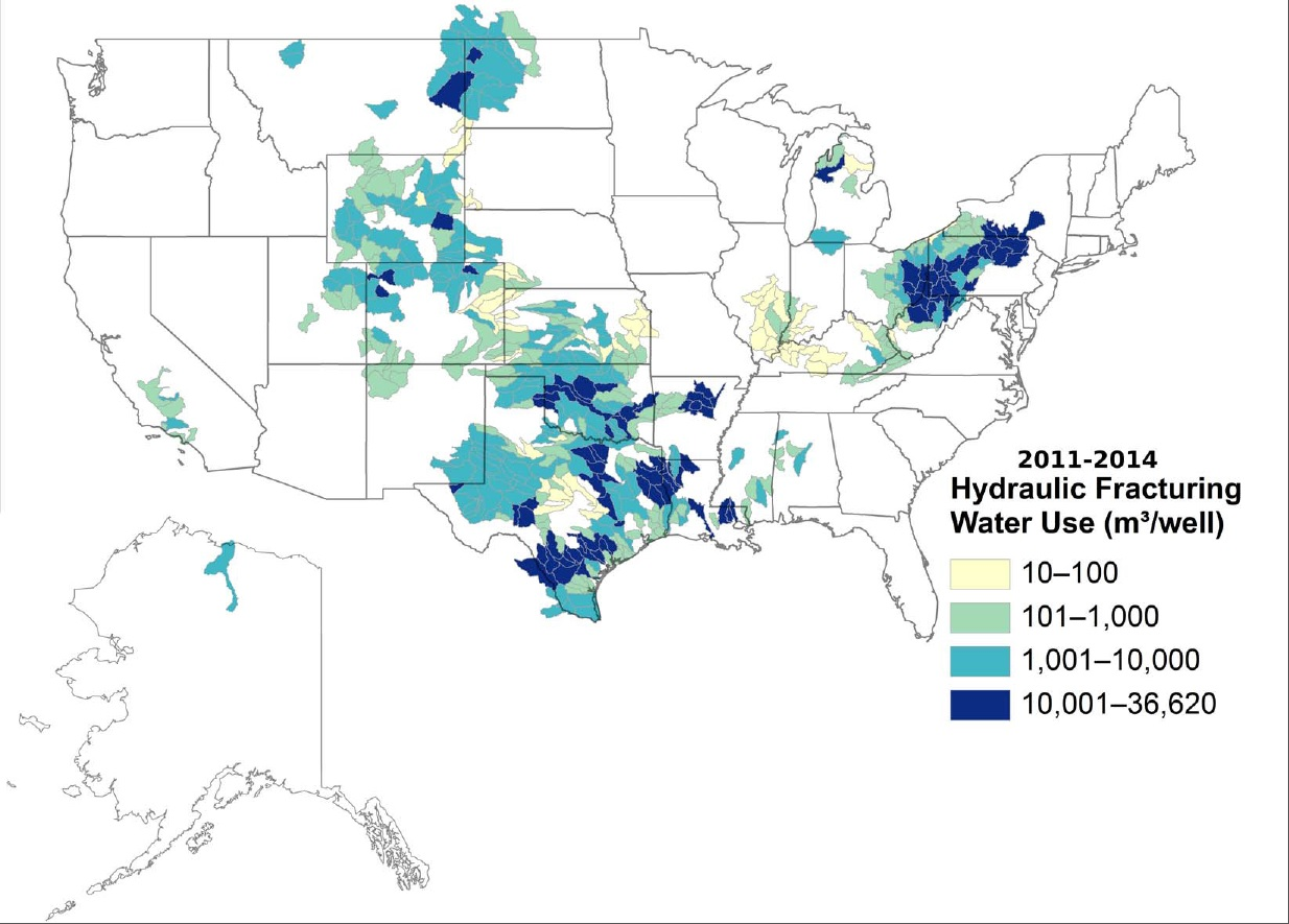 2011-2014 Hydraulic Fracturing Water Use (square meters/well)